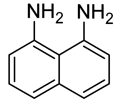 en:1,8-Diaminonaphthalene